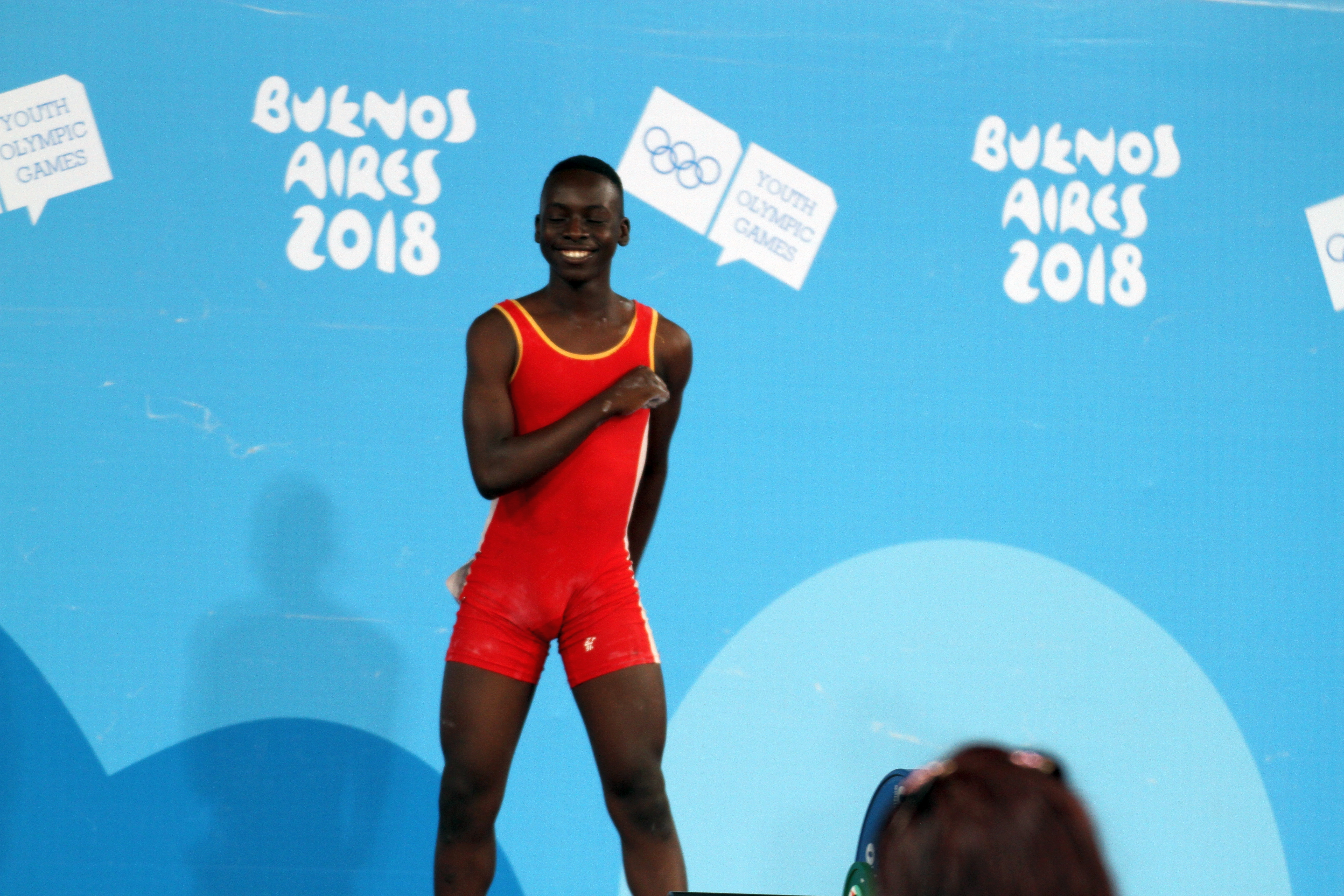 Weightlifting at the 2018 Summer Youth Olympics at 8 October 2018 – Boys' 62 kg